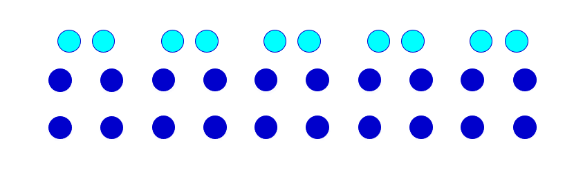 reconstruction